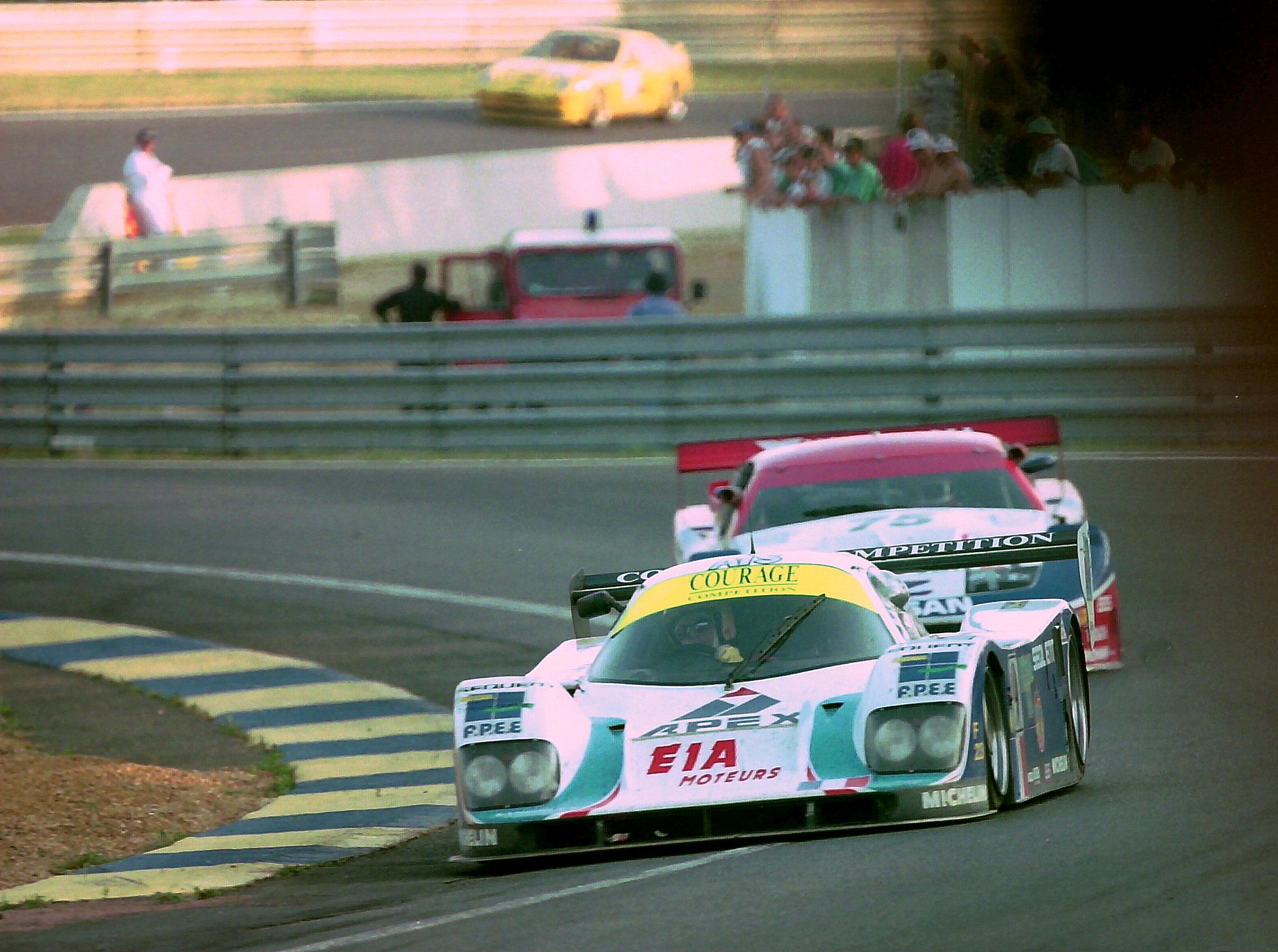 Courage C32LM - Jean-Louis Ricci, Philippe Olczyk & Andy Evans leads the Nissan 300ZX Turbo - Steve Millen, Johnny O`Connell & John Morton in the Esses at the 1994 Le Mans